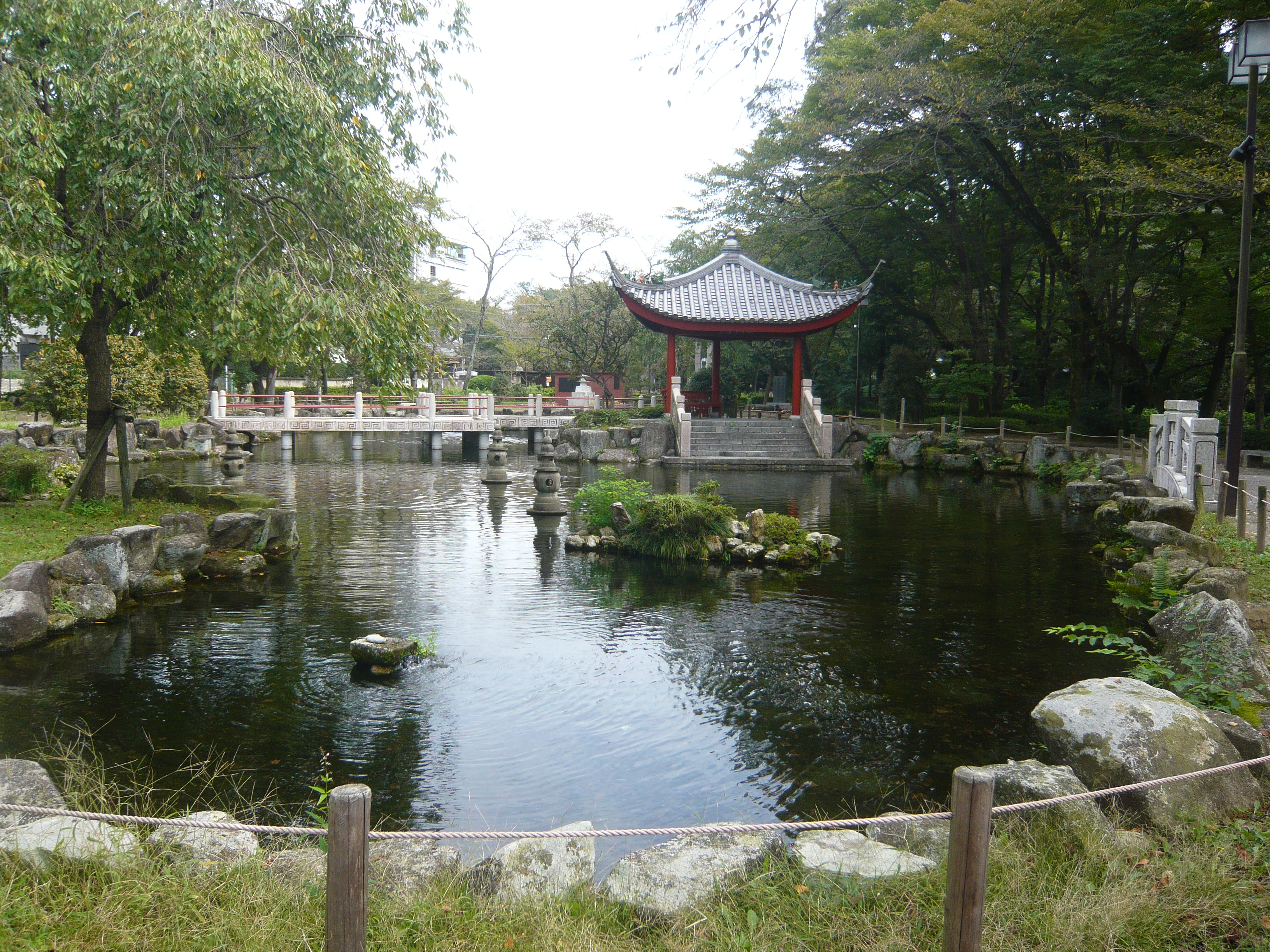 A small version of the West Lake of Hangzhou, China inside the Gifu Park, Gifu, Japan.